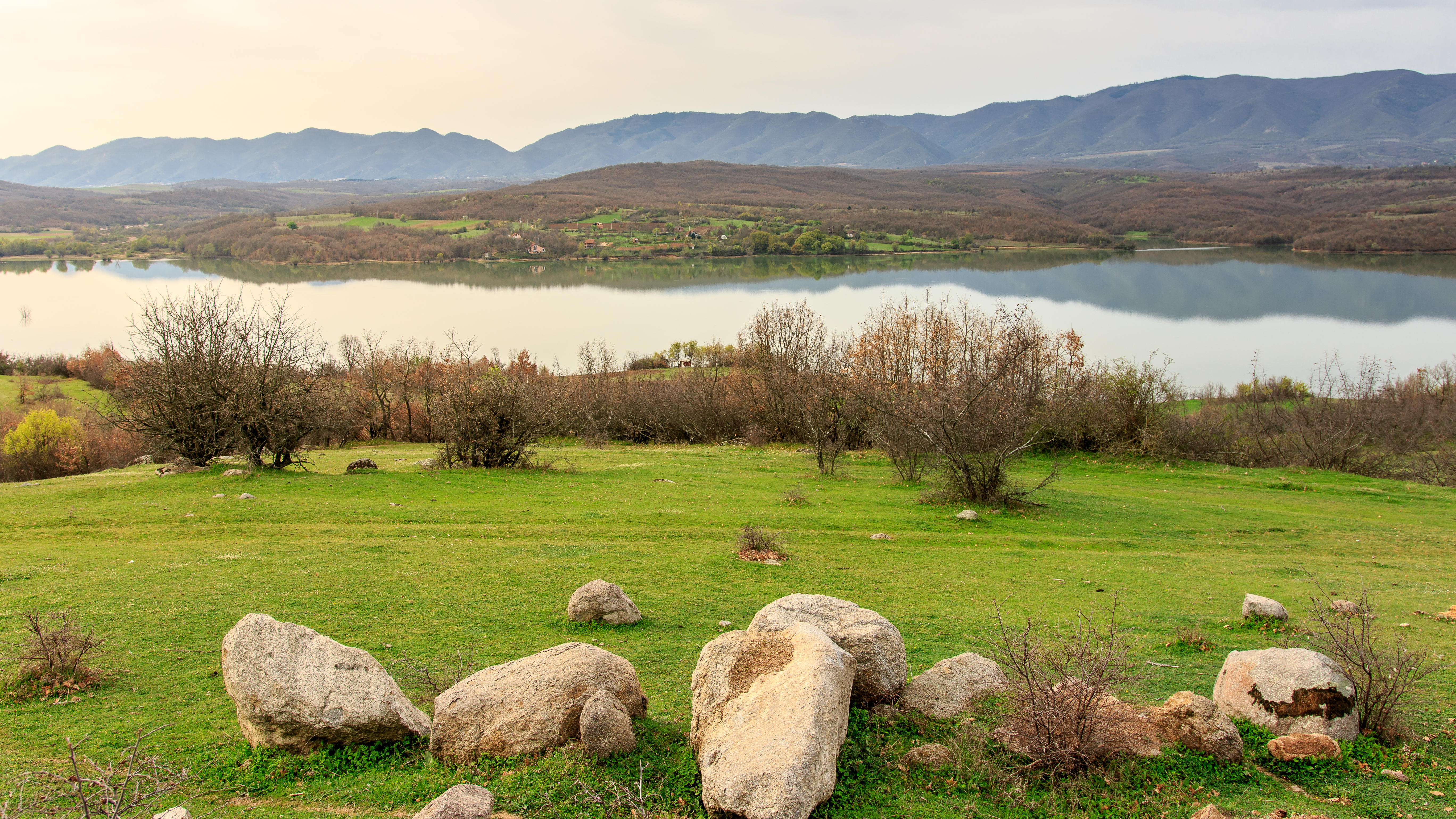 Panoramic view of the village Dolni Radeš